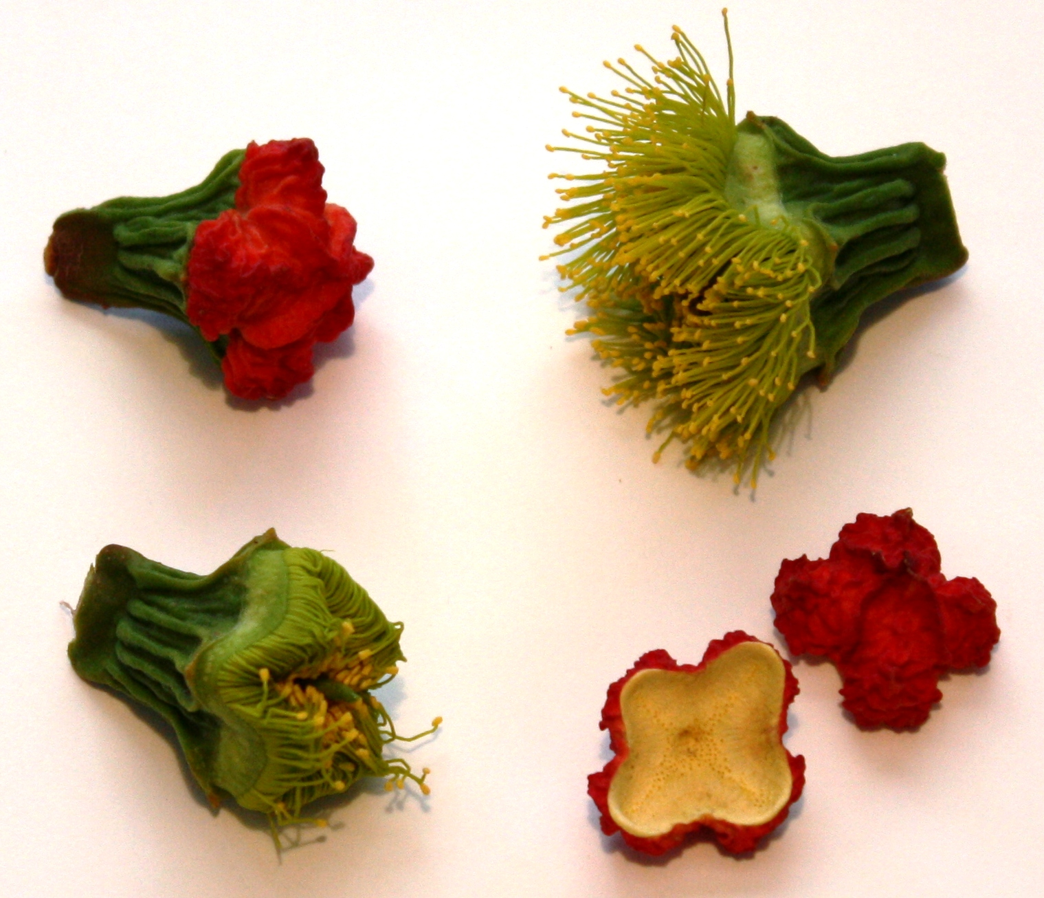 Flower buds and opercula (bud caps) of Eucalyptus erythrocorys. This is a good species with which to illustrate the characteristic operculum of Eucalyptus and Corymbia because it is large and brightly coloured. Top left: A flower bud with operculum still attached; Bottom left: A flower bud immediately after the operculum can been released; Top right: A flower bud with stamens half expanded. Bottom right: Upper and lower surfaces of opercula.